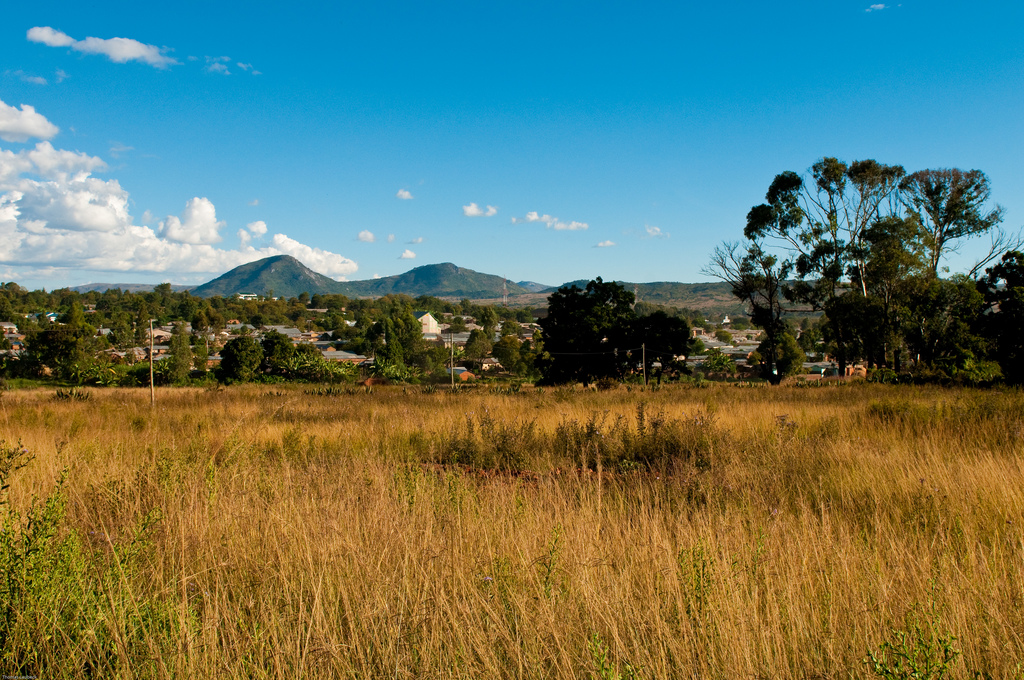 Sumbawanga Town, Tanzania